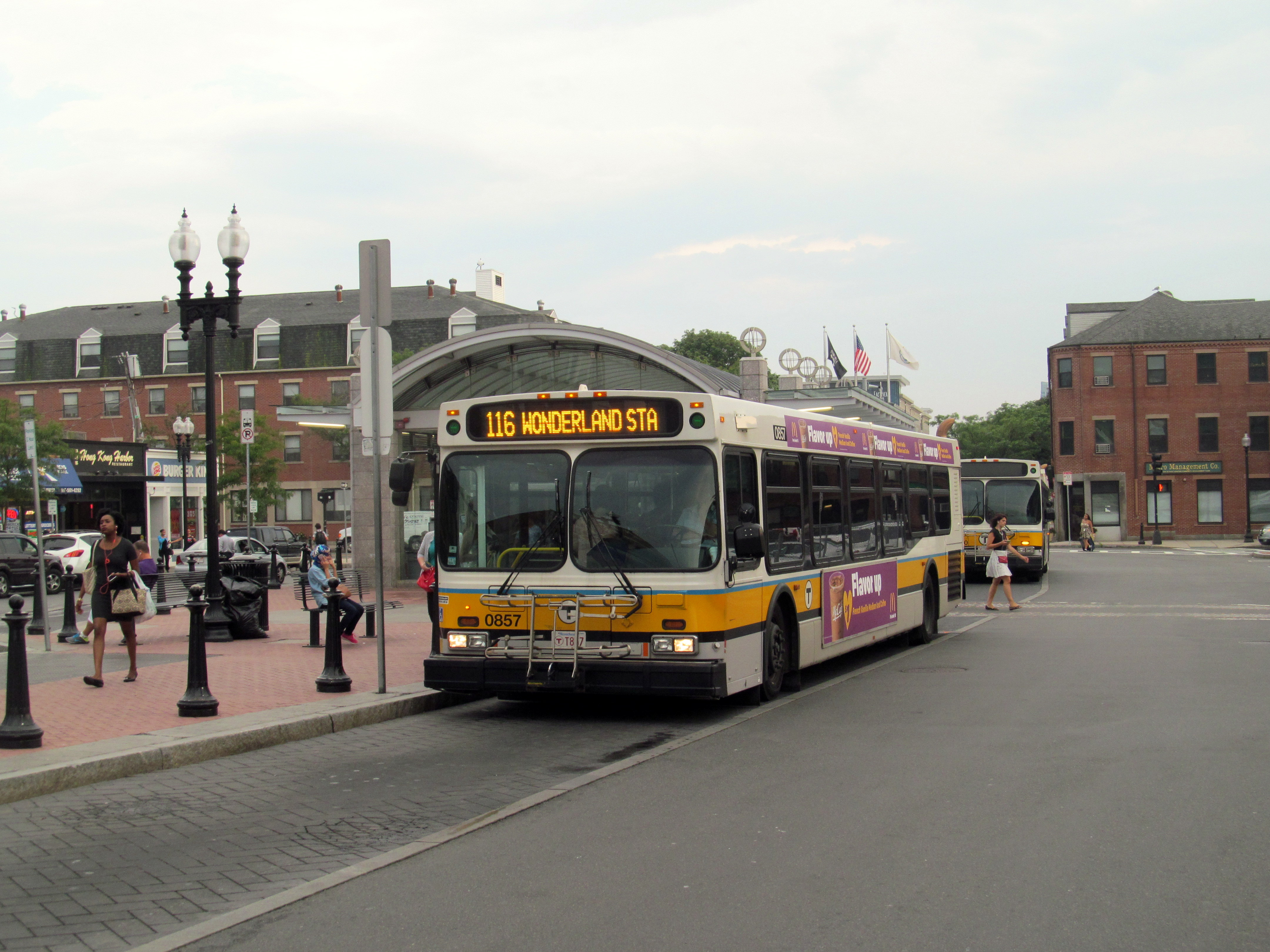 A #116 bus boards passengers at Maverick station in August 2015